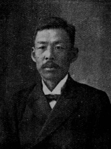 Mr. Kintarō Misonou, chief teacher of the Tokyo Prefectural Toshima Normal School.